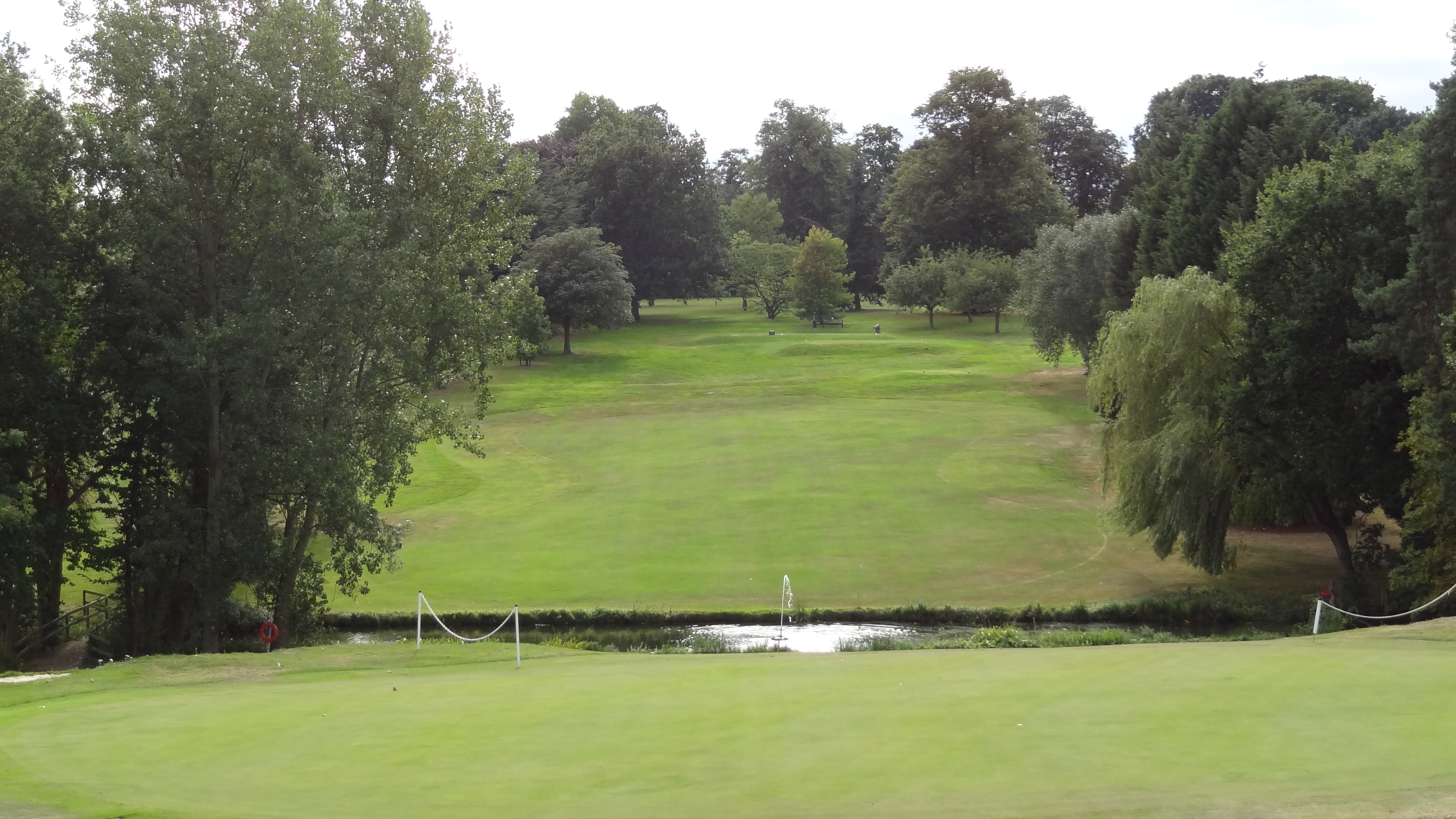 North Middlesex Golf Club ponds, SINC in Friern Barnet London